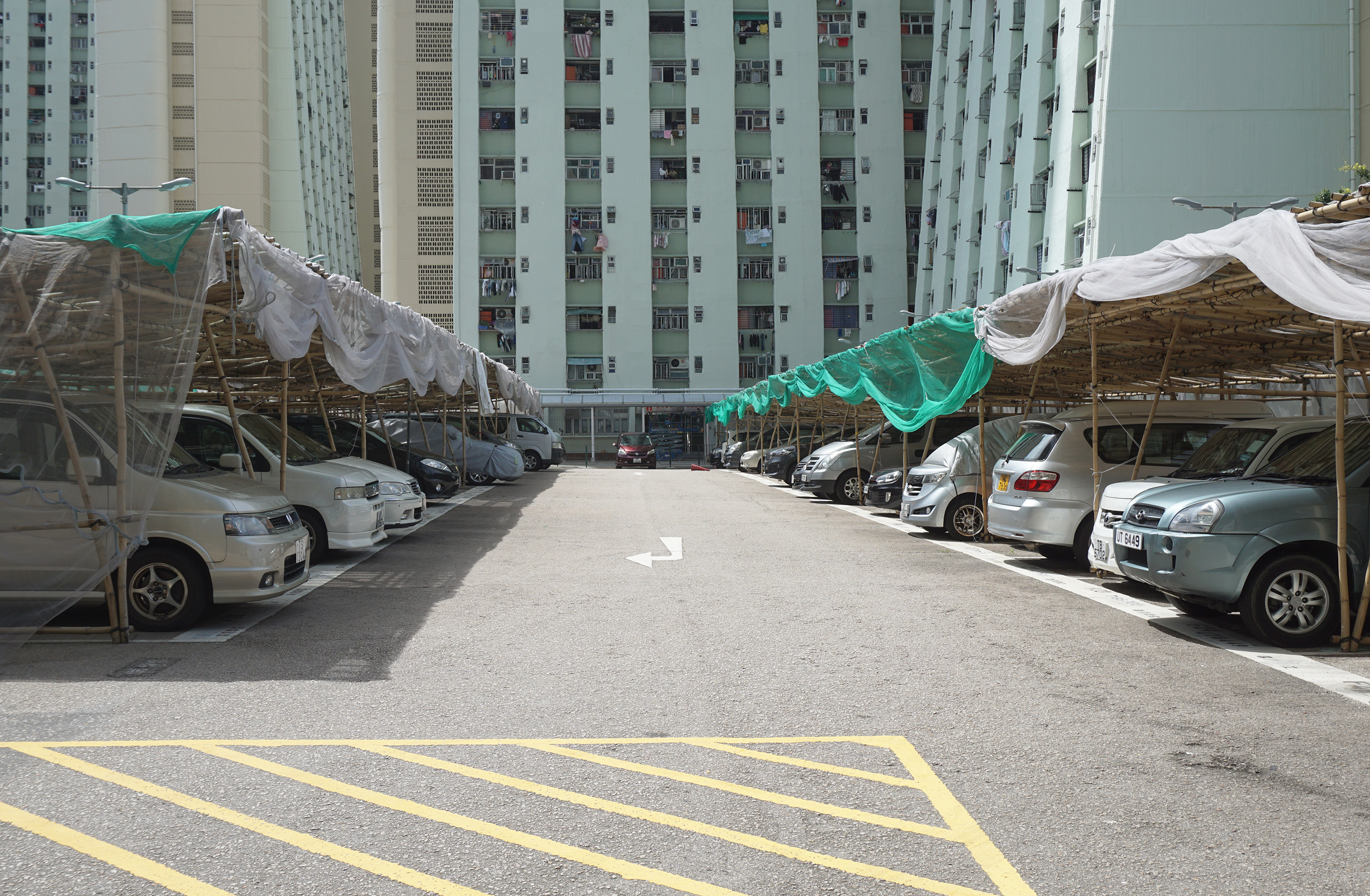 Tai Hing Estate in Tuen Mun, Hong Kong.